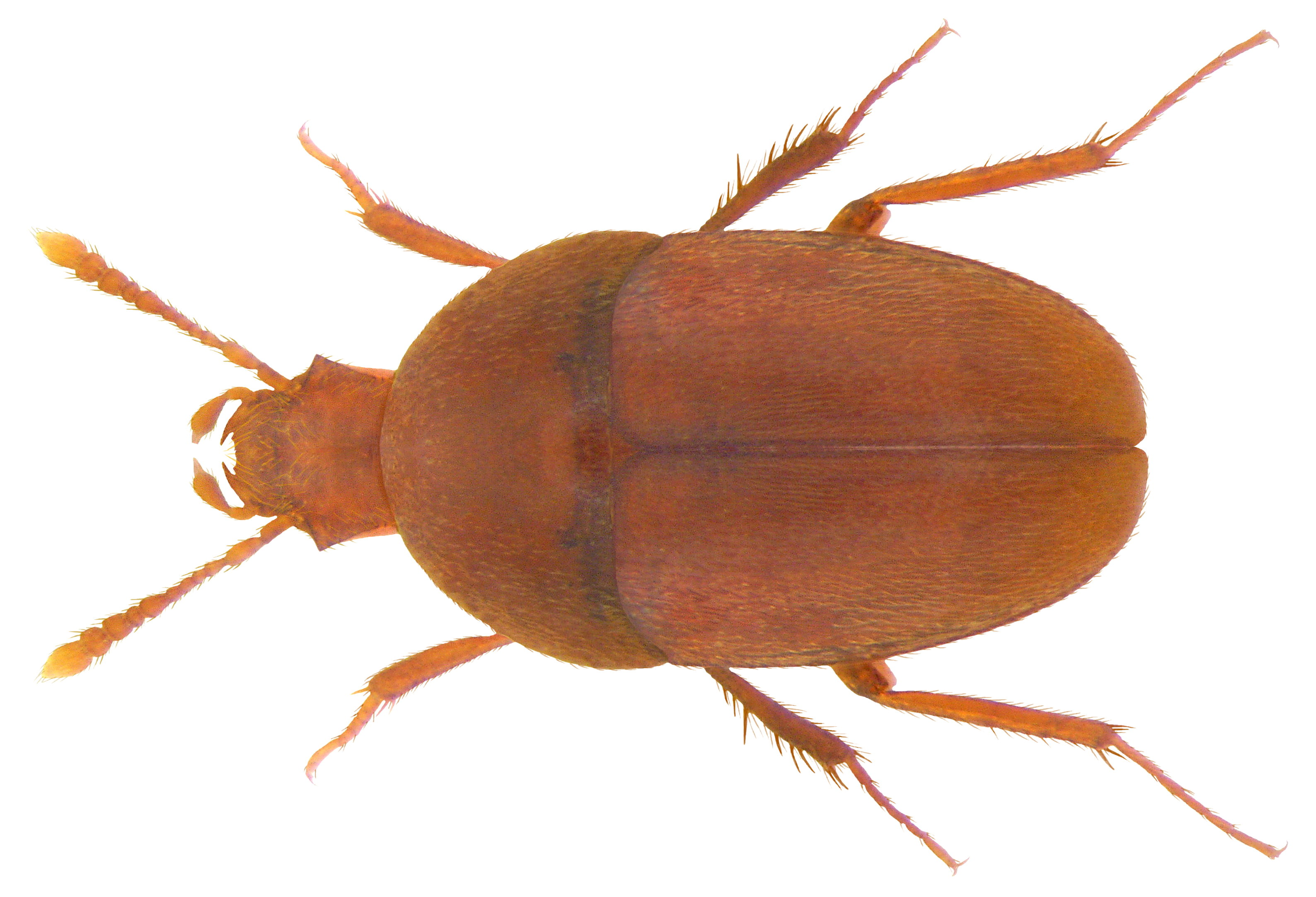 Family: Cholevidae Size: 5 mm Distribution: N.Italien, France, S.England, S.Holland, Ireland Ecology: in decaying vegetable matter Location: England, Herefordshire, Hereford, Tupsley leg det. J.Cooter, 1990 Photo: U.Schmidt, 2009